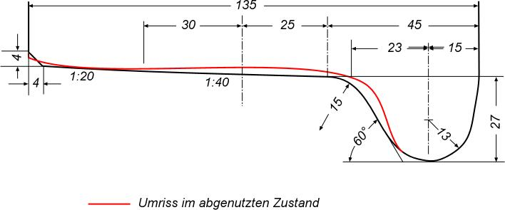 The figure shows a conical wheel profil in new condition and in the weared state after long usage